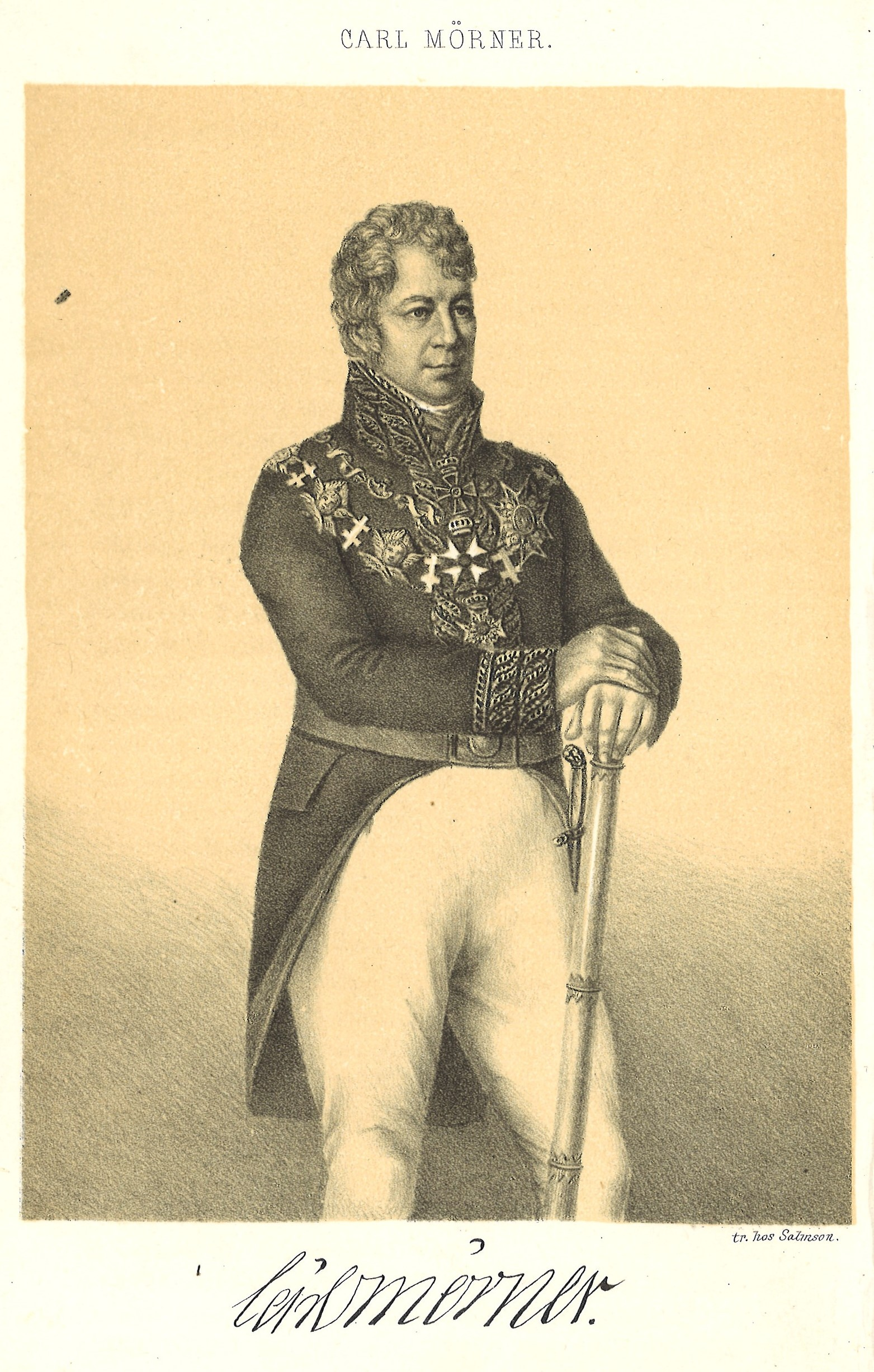 Carl Mörner (1755–1821), Swedish count, field marshal and "lantmarskalk" (chairman of the estate of nobility).